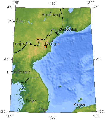 Earthquake caused by North Korea testing a Nuclear weapons underground. Orange color indicates the image is "today" (May 25, 2009), size of the orange square indicates magnitude (4.7).